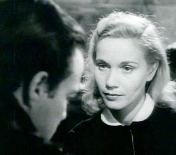 Marlon Brando and Eva Marie Saint in a screenshot from the trailer for the film On the Waterfront.